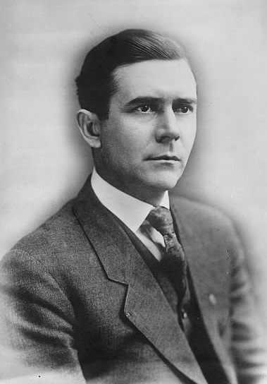 Jacob L. Milligan, Missouri Congressman